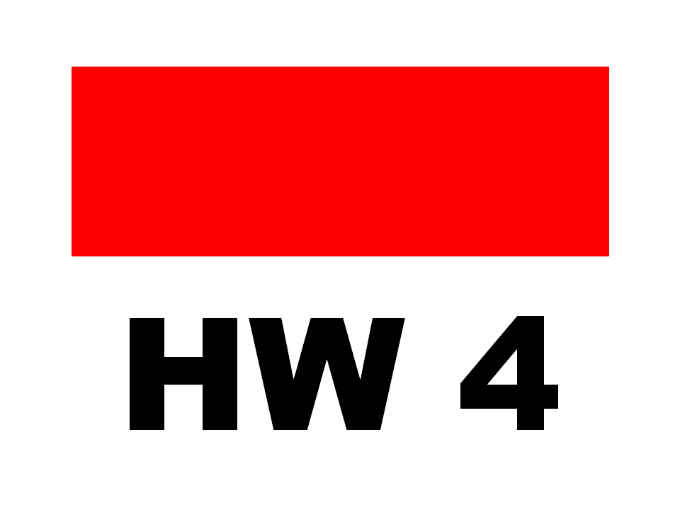 Germany - Baden-Württemberg/Bavaria: "Main-Donau-Bodensee-Weg", hiking sign "HW 4"